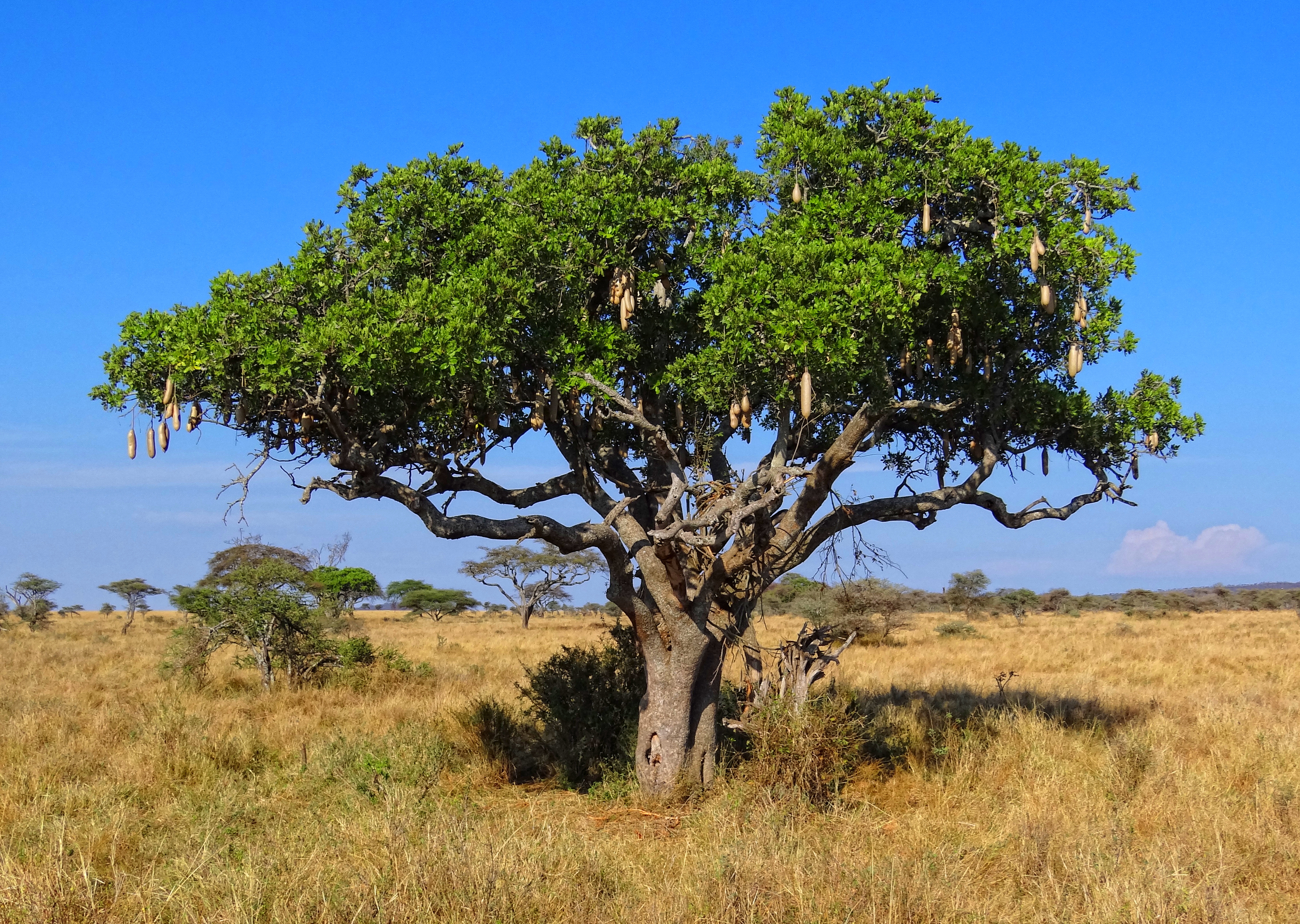 A sausage tree inside the Serengeti National Park in Tanzania.